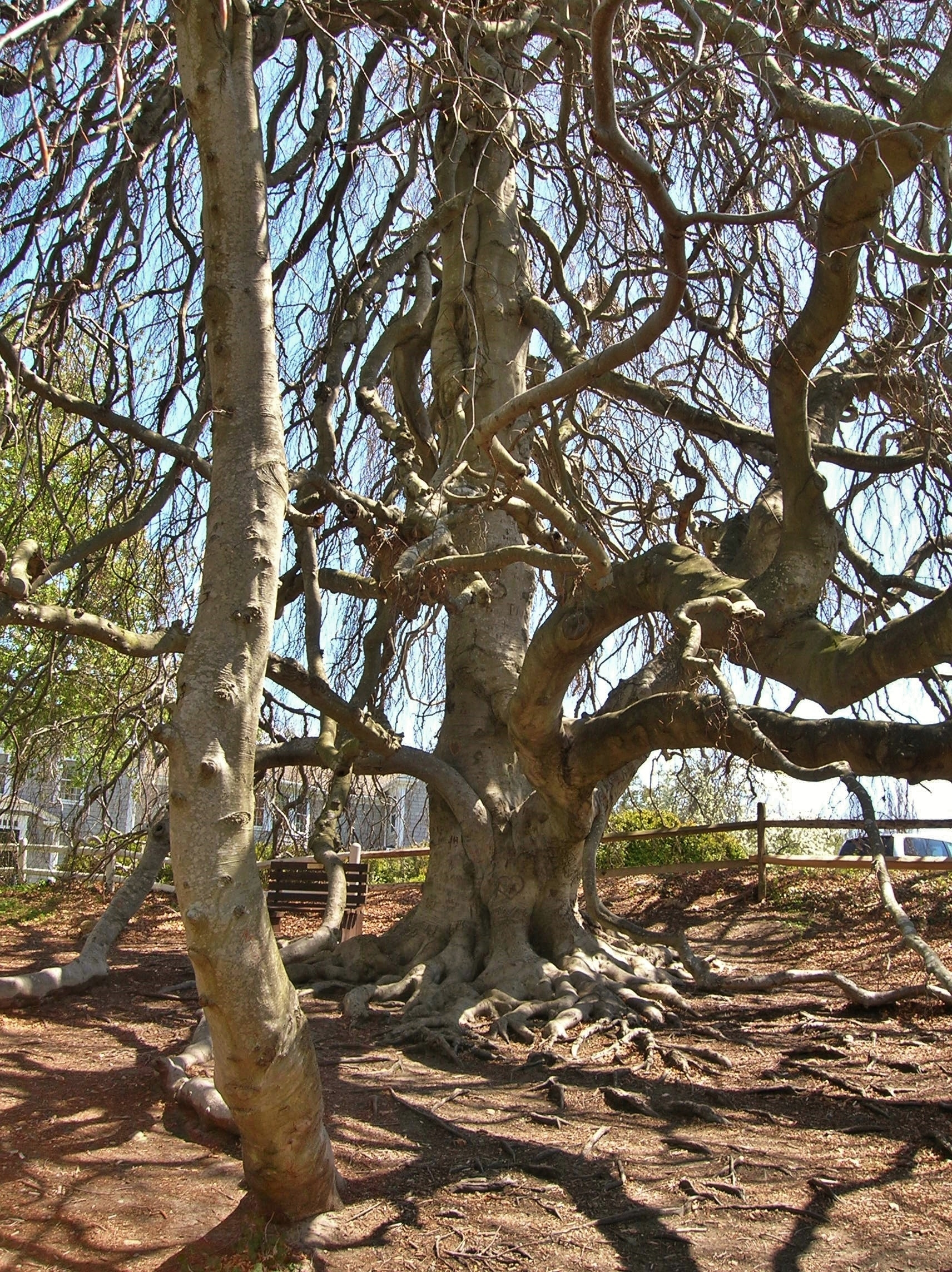 Photograph of a weeping European beech tree located next to the Historical Society of Old Yarmouth (the Captain Bangs Hallet House) in [Yarmouth, Massachusetts]. The photo was taken 4/21/2012.